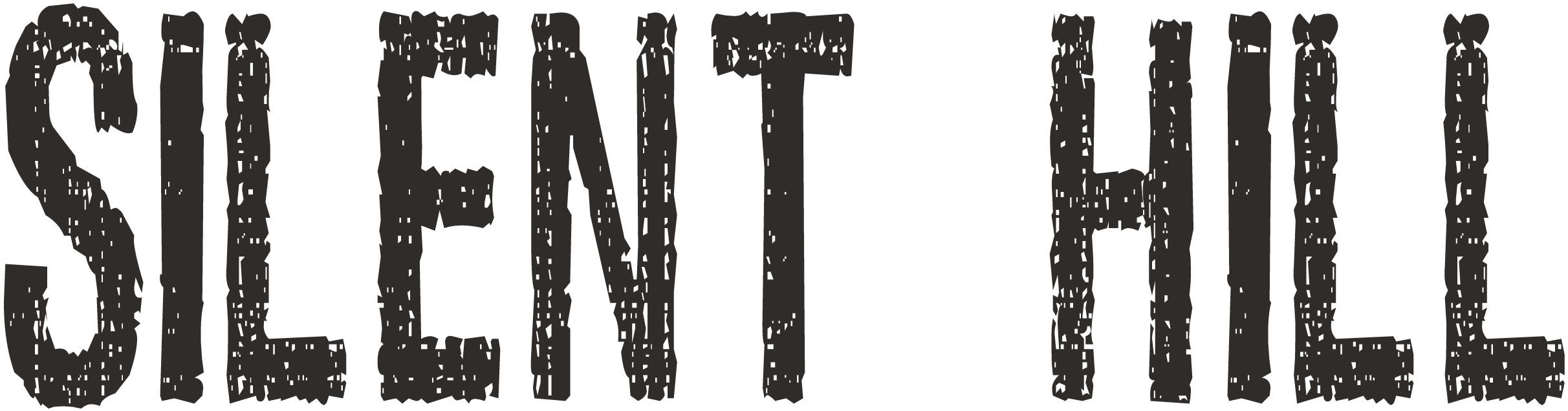 Silent Hill series logo